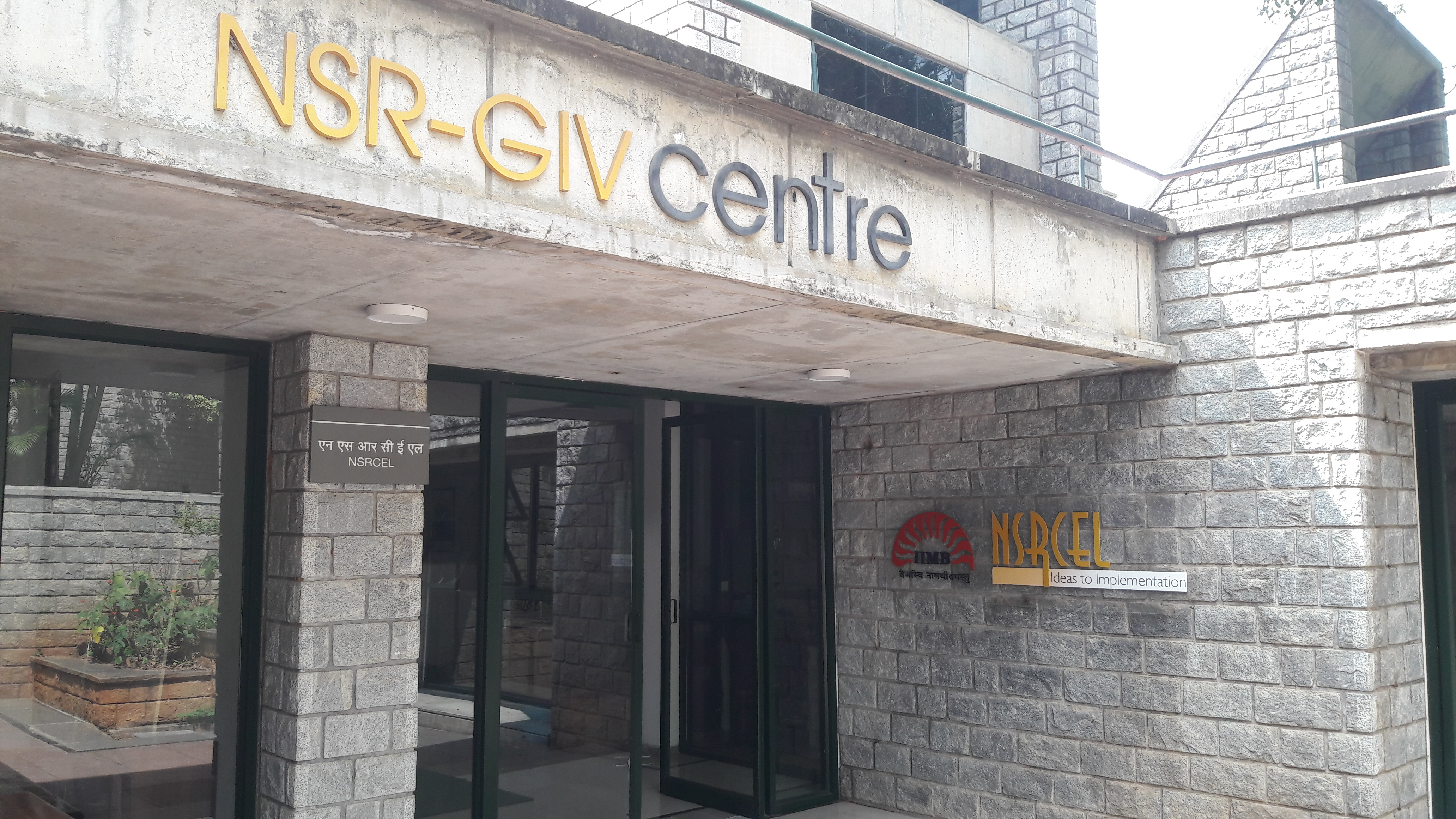 Photograph of the Nadathur Raghavan Centre at IIMB.